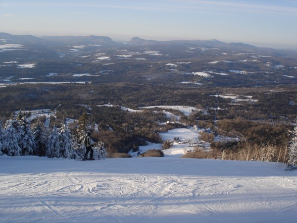 Skiing from the top of Upper Warrens Way